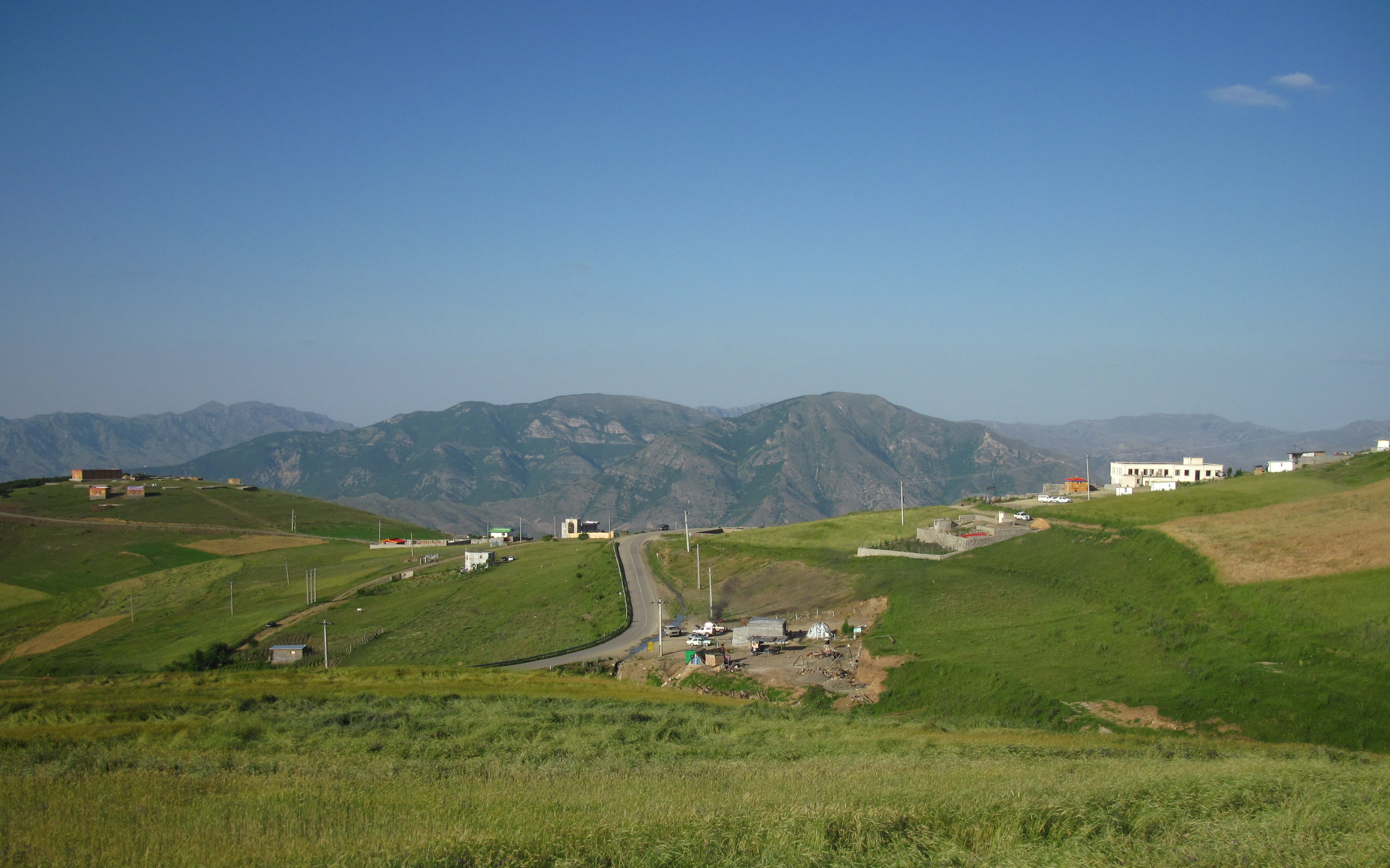 This photo of Shojaabad, East Azerbaijan village was taken by R. Leysi.